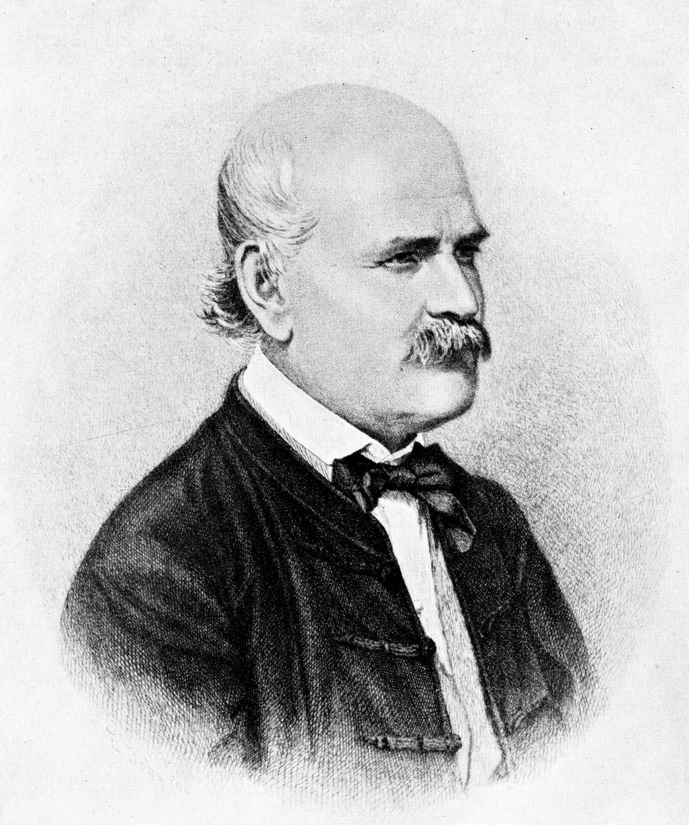 Ignaz Semmelweis (1815-1865); 26:20 cm